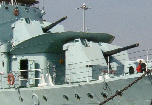 Photograph clip showing forward QF 4.5 inch guns on HMS Cavalier.